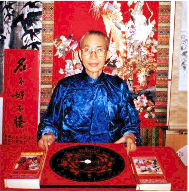 Steve Lu